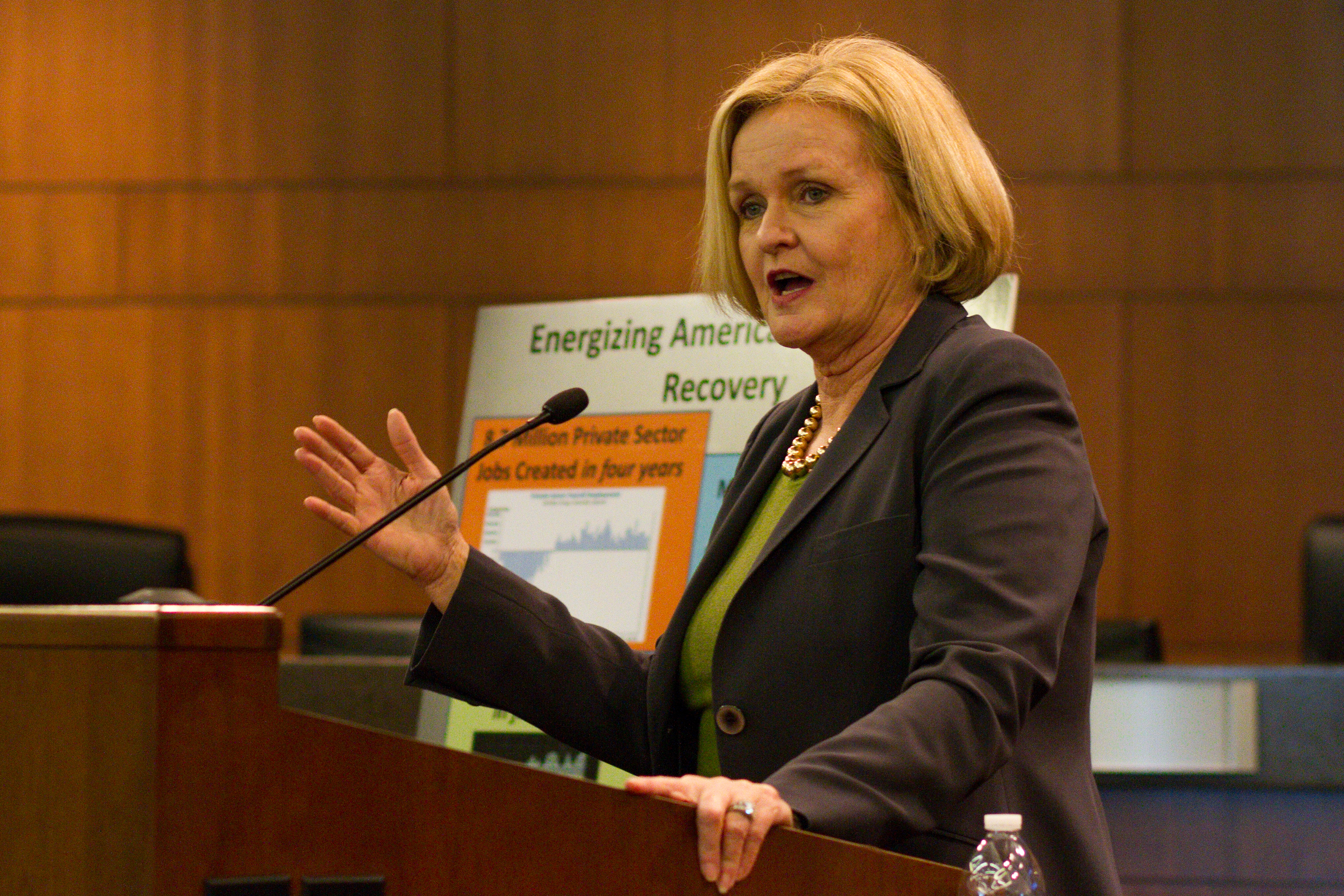 Sen. Claire McCaskill speaksat Columbia City Hall in March 18, 2014